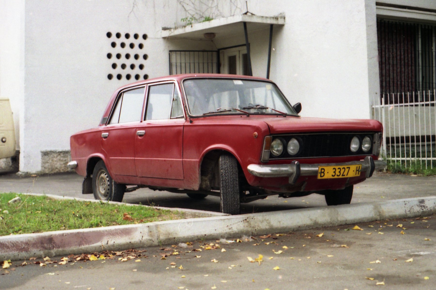 B registration for Varna, which still applies In 1992, white registration plates were introduced and the yellow ones , which also included cyrilic letters, were phased out.